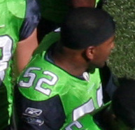 Seattle Seahawks players, 2009